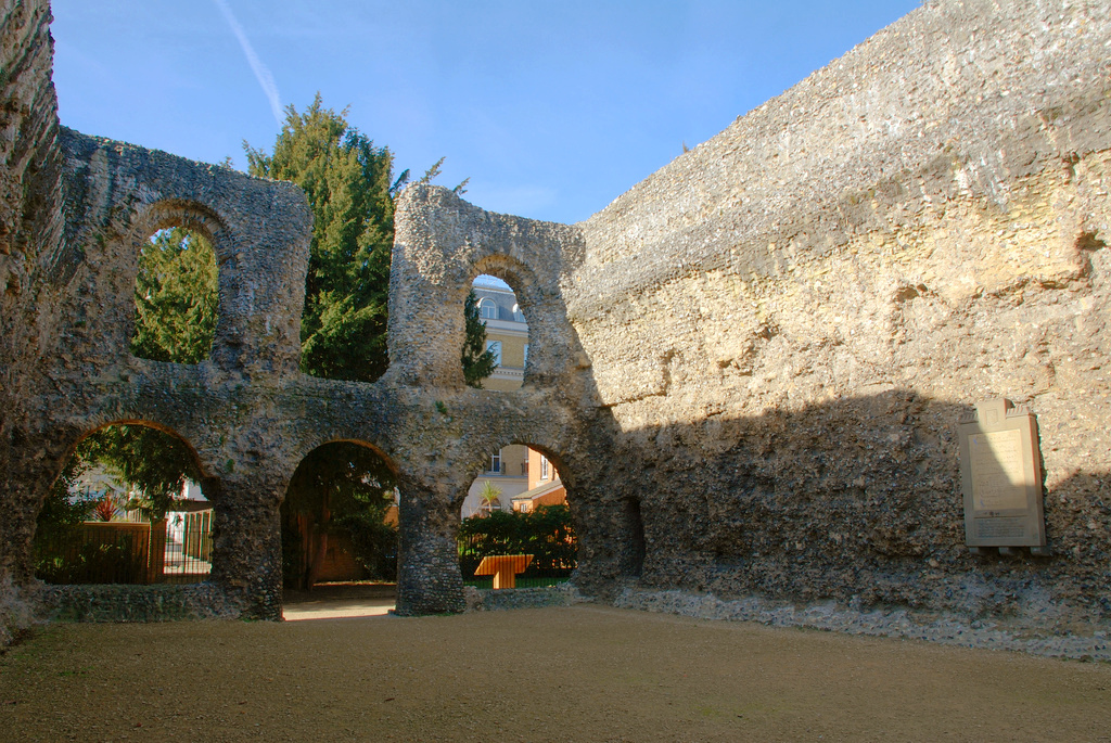 The ruined chapter house of Reading Abbey, in the English town of Reading. Open to the public when this photograph was taken, this area is currently closed due to safety fears over the stability of the ruins. For more information, see the wikipedia article Reading Abbey.